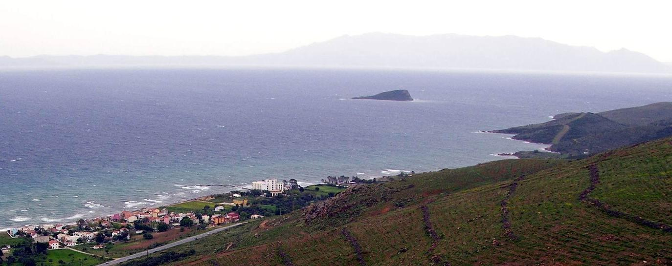 Reforestation zone along Doğanbey coastline, Seferihisar, İzmir, Turkey